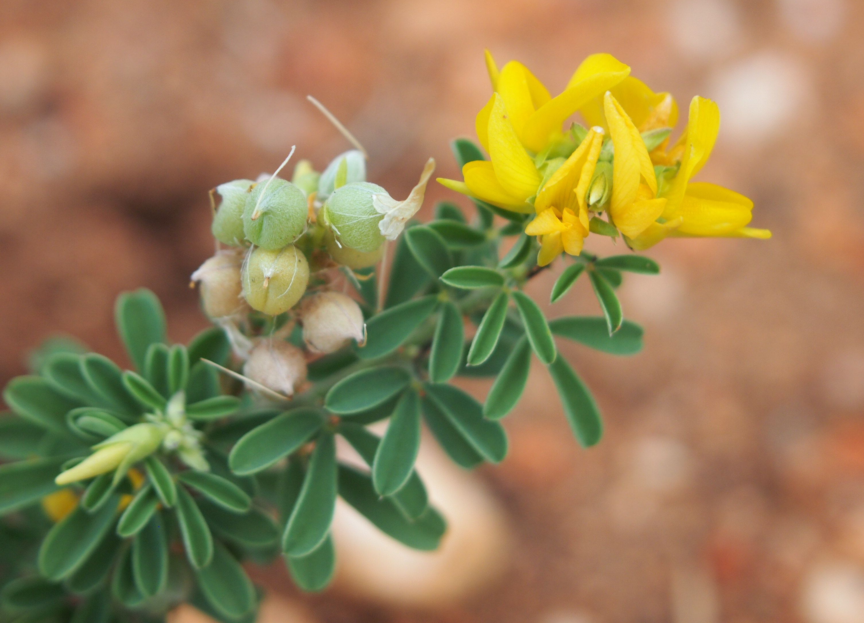 Crotalaria medicaginea fruit and flowers